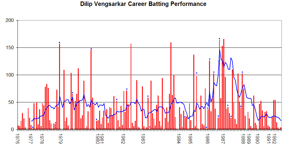 This graph details the Test Match performance of Dilip Vengsarkar. It was created by Raven4x4x. The red bars indicate the player's test match innings, while the blue line shows the average of the ten most recent innings at that point. Note that this average cannot be calculated for the first nine innings. The blue dots indicate innings in which Vengsarkar finished not-out. This graph was generated with Microsoft Excel 2002, using data from Cricinfo and .au.